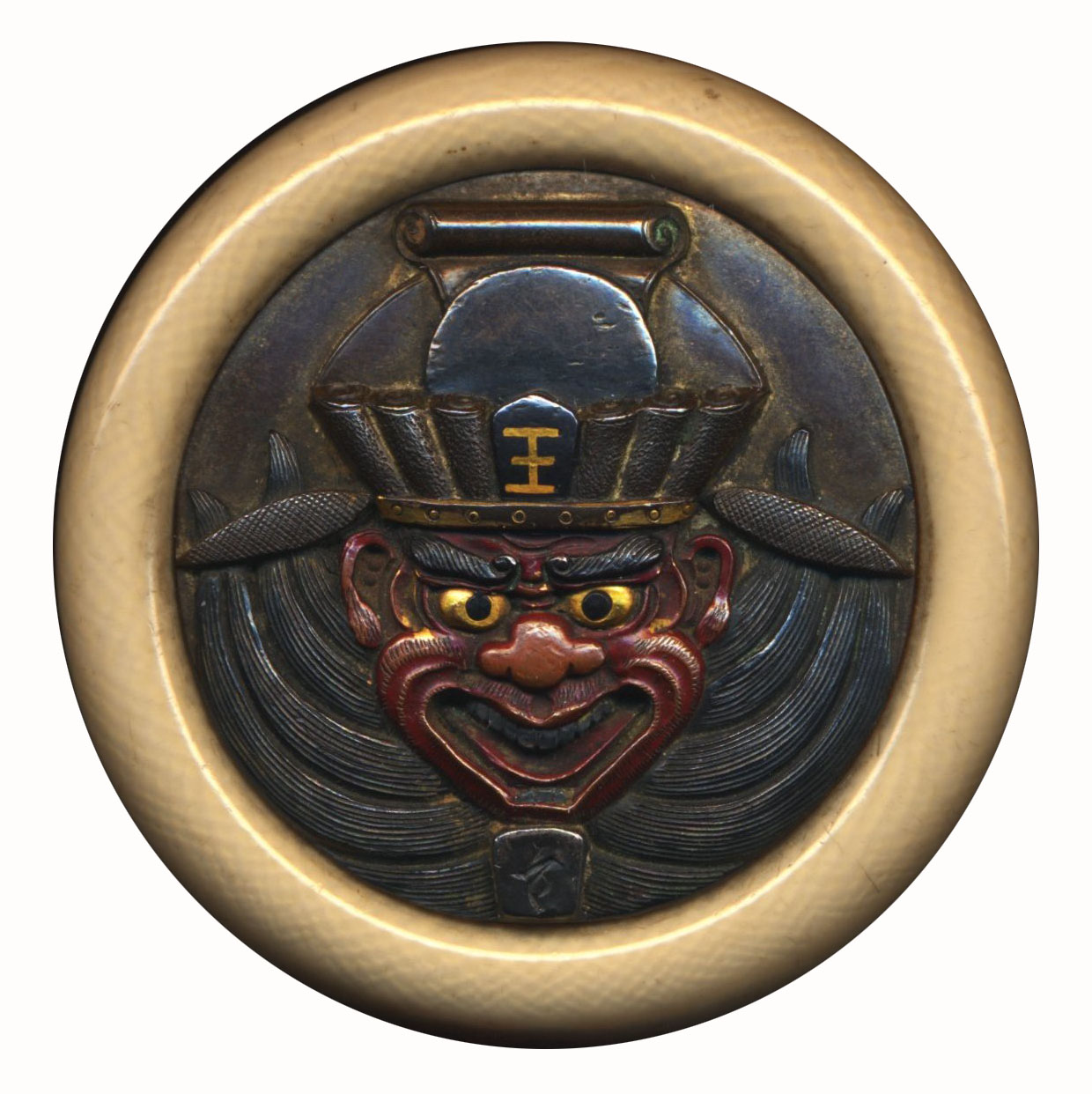 This 19th century kagamibuta netsuke depicts Emma Dai O, the King of Hell. The bowl is ivory; the disk is shakudo decorated with other gold and copper alloys. Overall diameter: 1.9" (48mm); thickness: 0.5" (13mm). This is the front only.